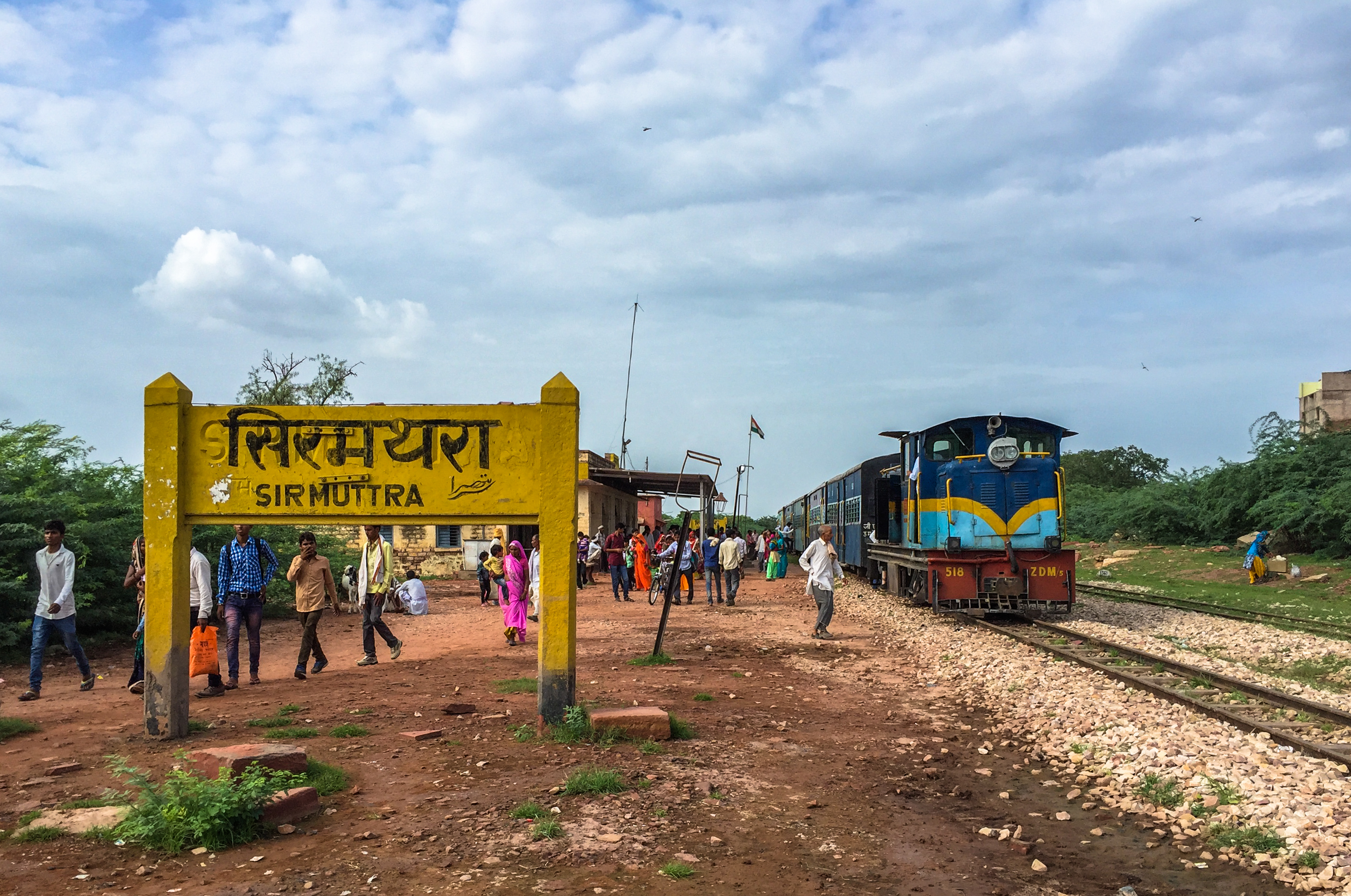 Narrow Gauge Train at Sarmathura Railway Station